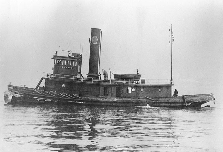 The commercial tug P.R.R. No. 9, also known as Penn R. R. No. 9 and Pennsylvania R. R. No. 9, prior to her service as the United States Navy tug and minesweeper , also known as USS Penn R. R. No. 9 and USS Pennsylvania R. R. No. 9.